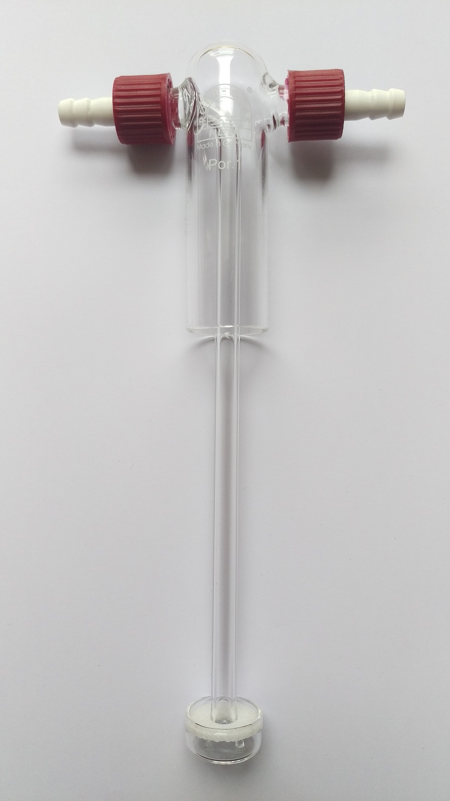 Cap for gas-washing bottle with diffuser frit